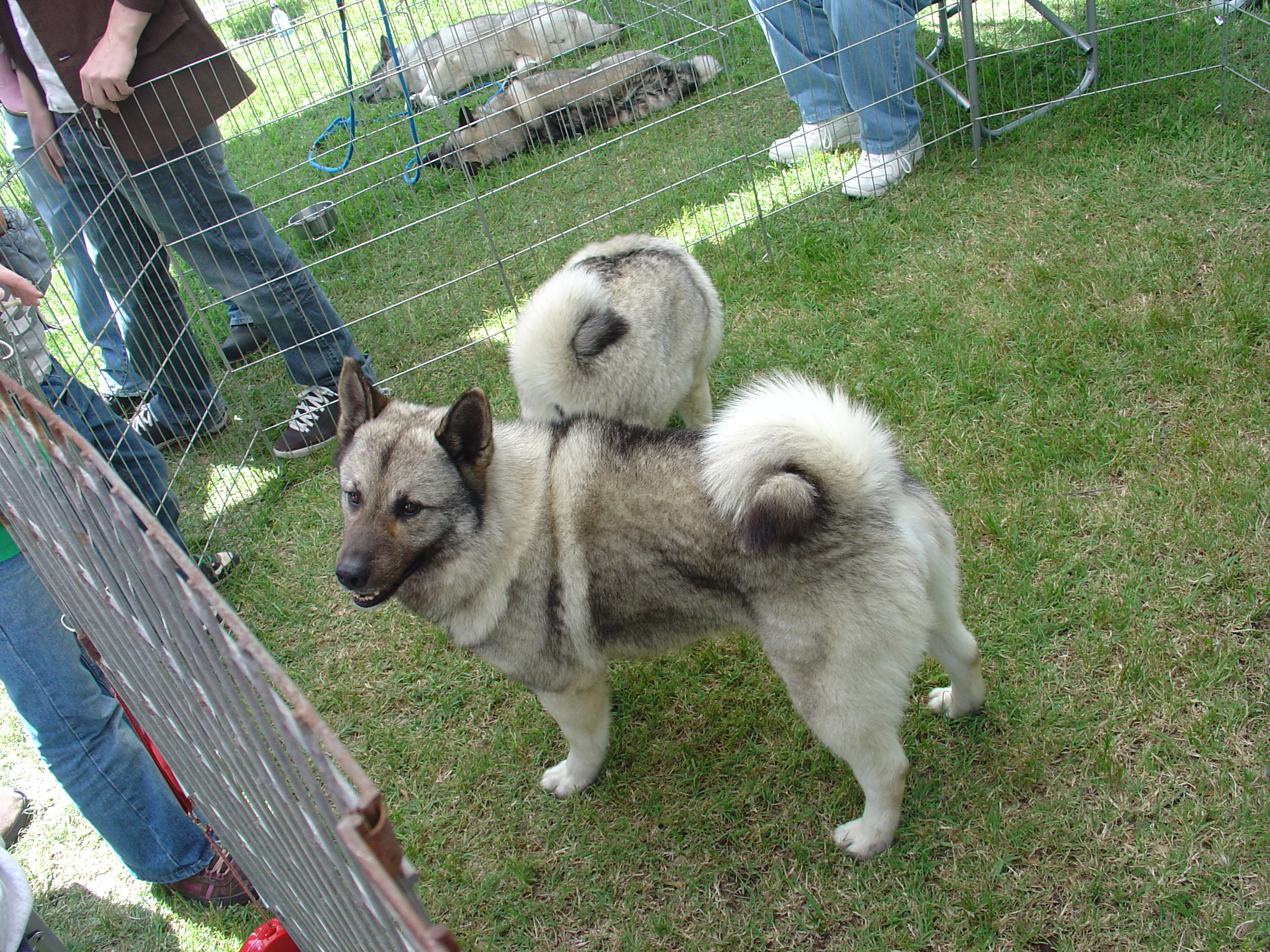 A Norwegian Elkhound showing off at the Scandinavian Festival hosted by California Lutheran University in Woodland Hills, 2008, photo by ChildofMidnight please attribute